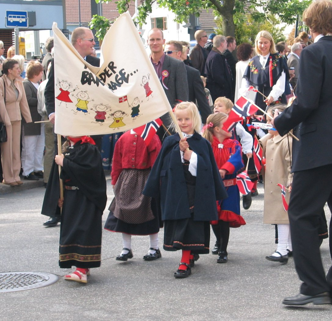 Children in national dress walking in a parada on the 17th of May, Norway's constitution day.